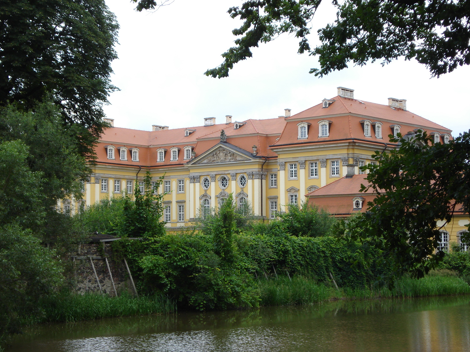 frontside of the castle of Joachimstein